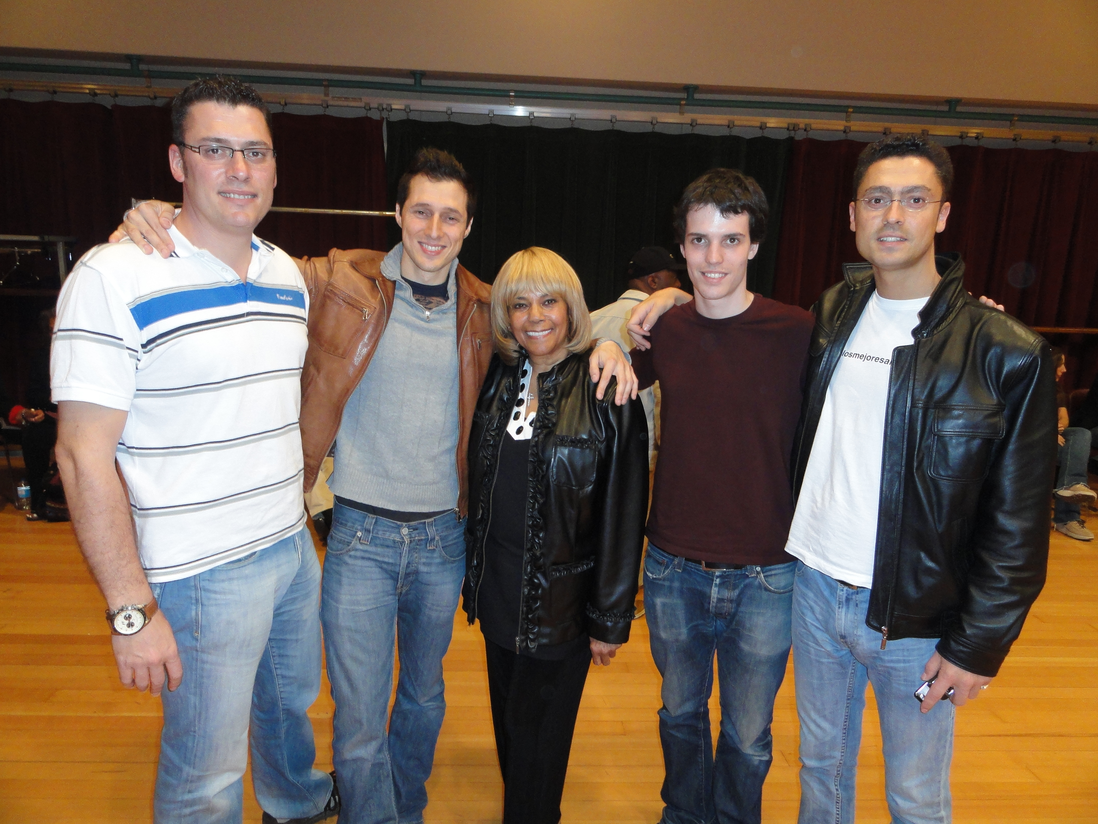 Claudette Robinson from de American rhythm and blues band The Miracles with the spanish doo wop band The Earth Angels. The picture was taken in May 2010 during their participation in the doo wop festival celebrated at the Benedum Center in Pittsburgh, Pennsylvania.